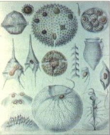 Protozoa (Flagellata)